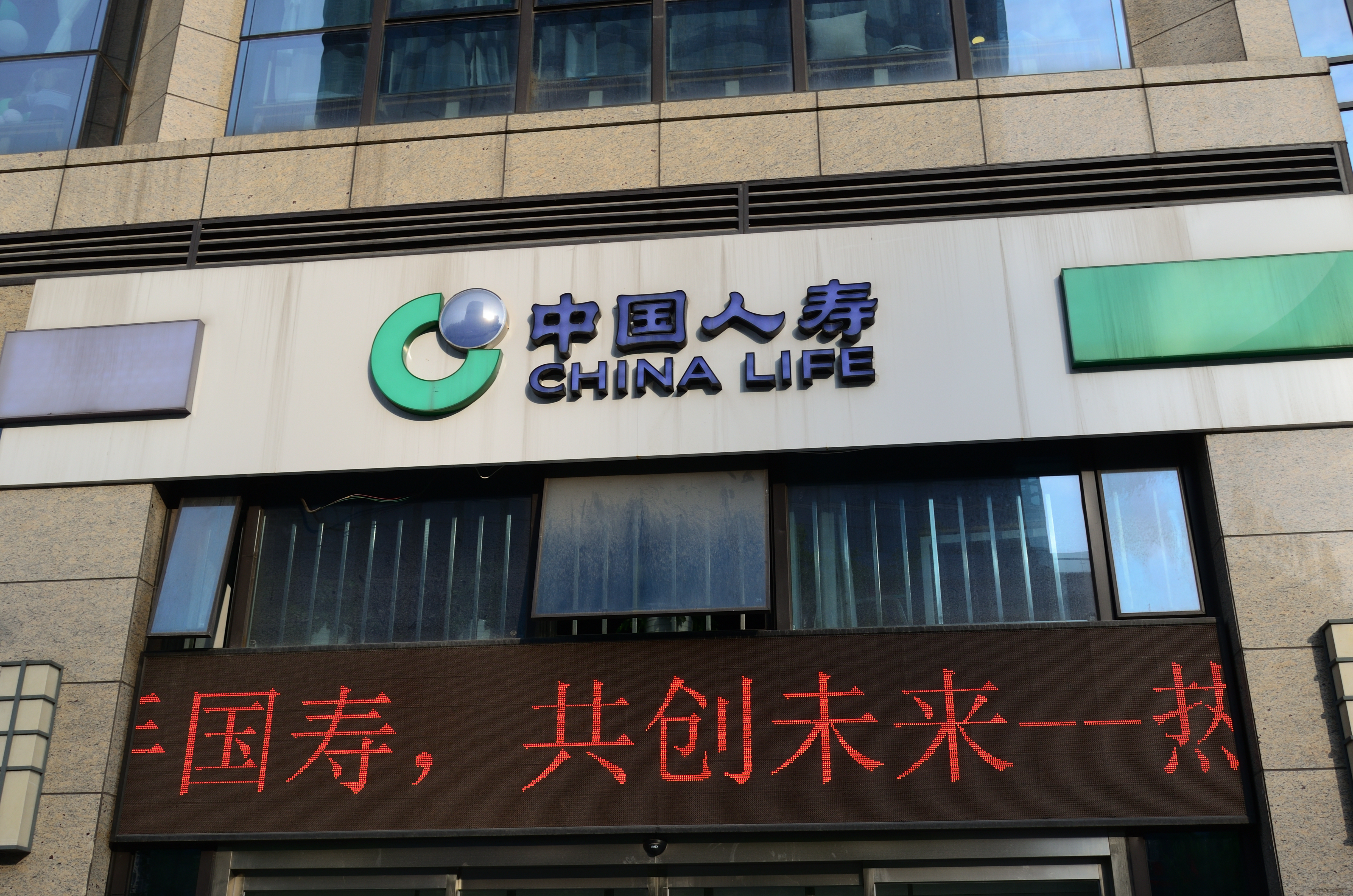 China Life in Hangzhou